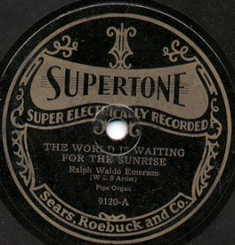 A record of The World Is Waiting For The Sunrise, by Ralph Waldo Emerson, published by Supertone Records